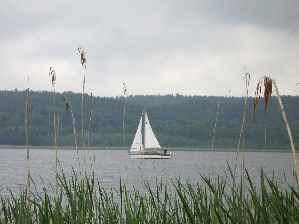 The Lake "Schwielowsee" (lake in the riverrun of the Havel) in the german state Brandenburg.